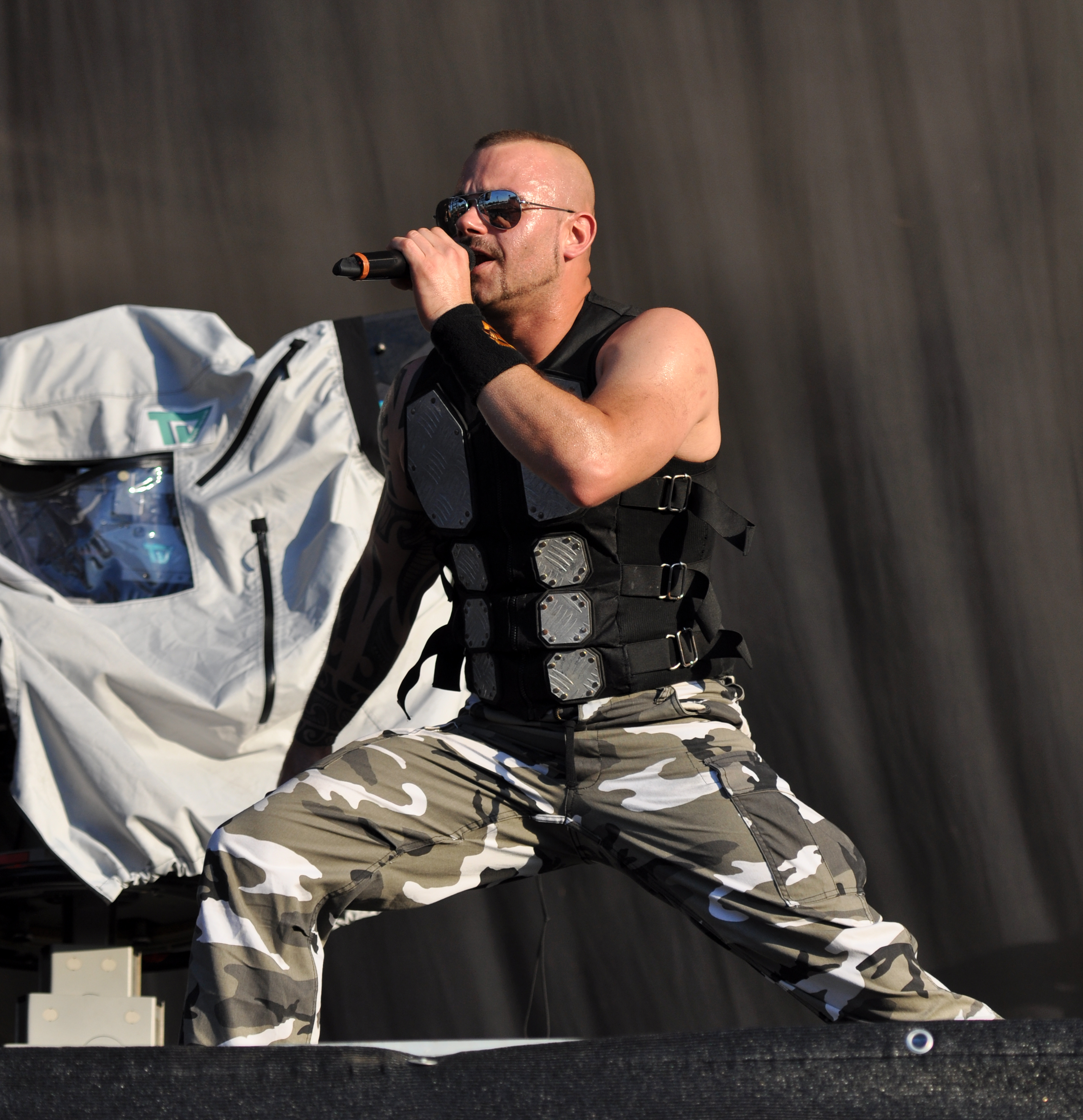 Sabaton at Wacken Open Air 2013